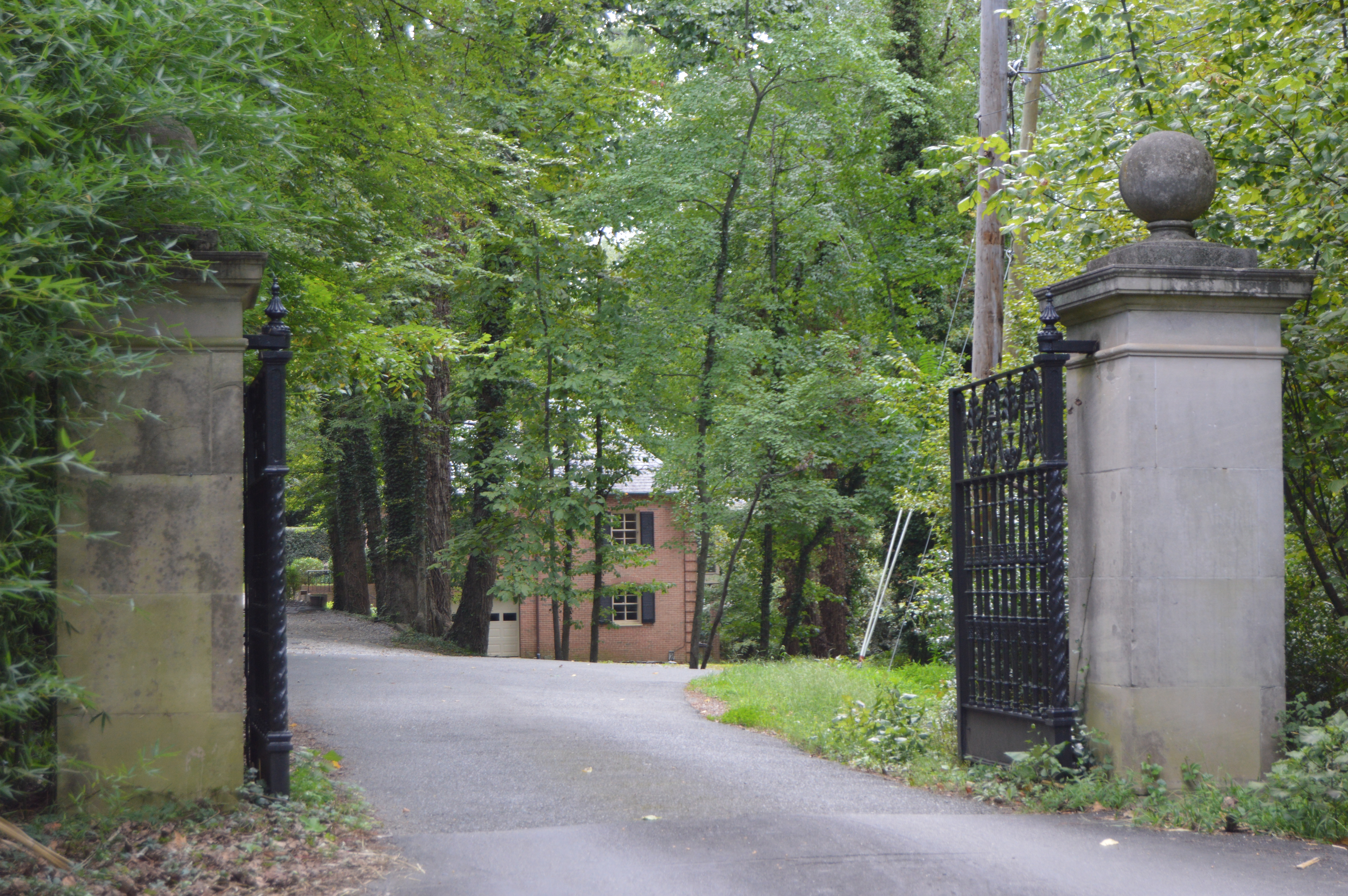 Gateway to the Rice House, located on Old Locke Lane (together with the unrelated house visible in the background) in Richmond, Virginia, United States. It is listed on the National Register of Historic Places.